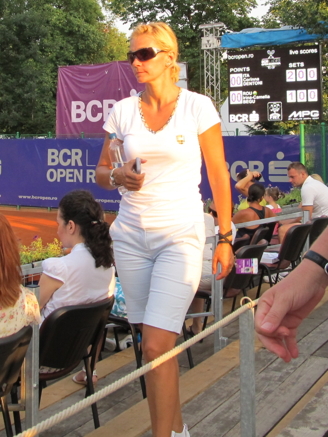 Former tennis player Ruxandra Dragomir at the 2011 BCR Open Romania Ladies